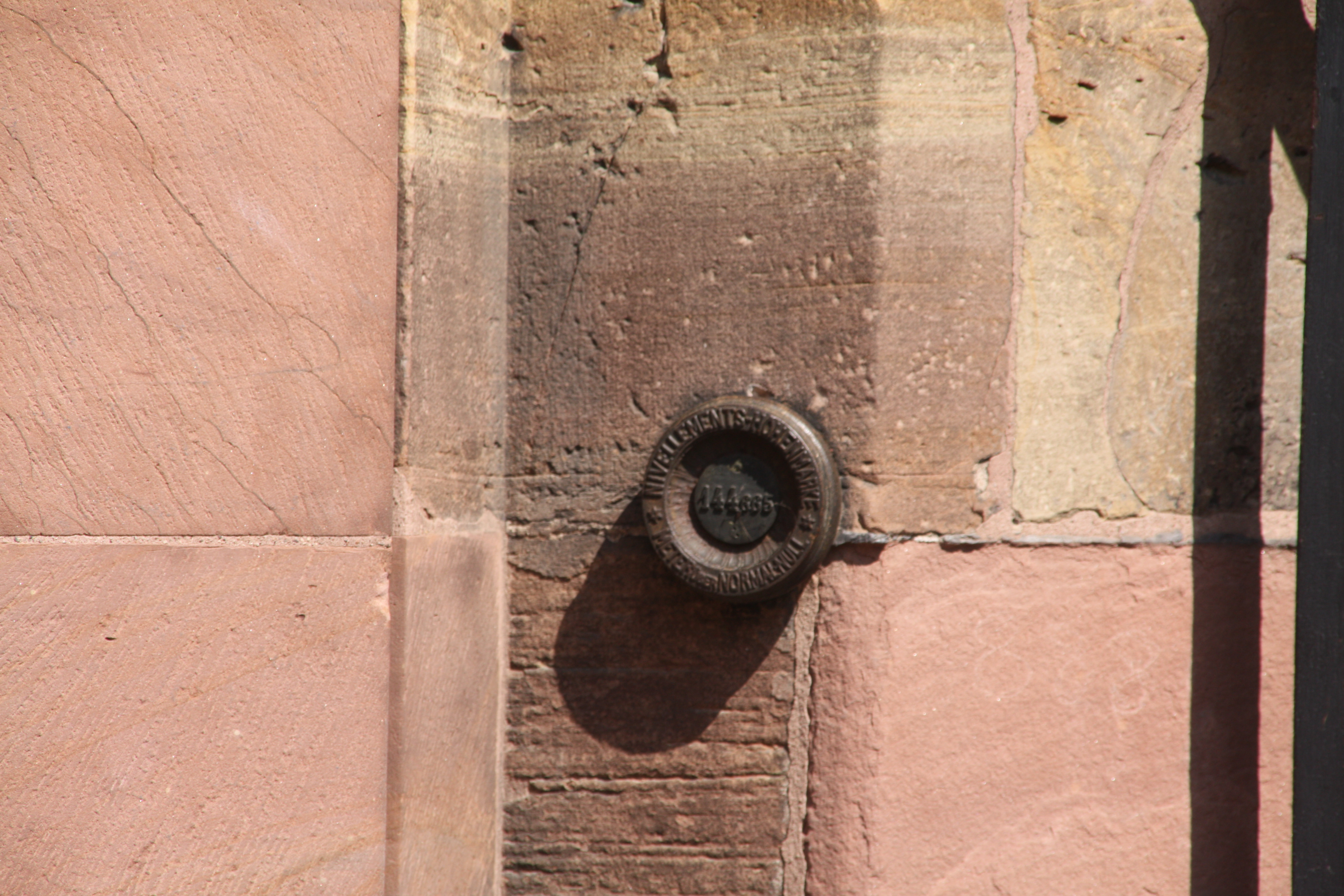 Benchmark on the cathedral in Strasbourg, France